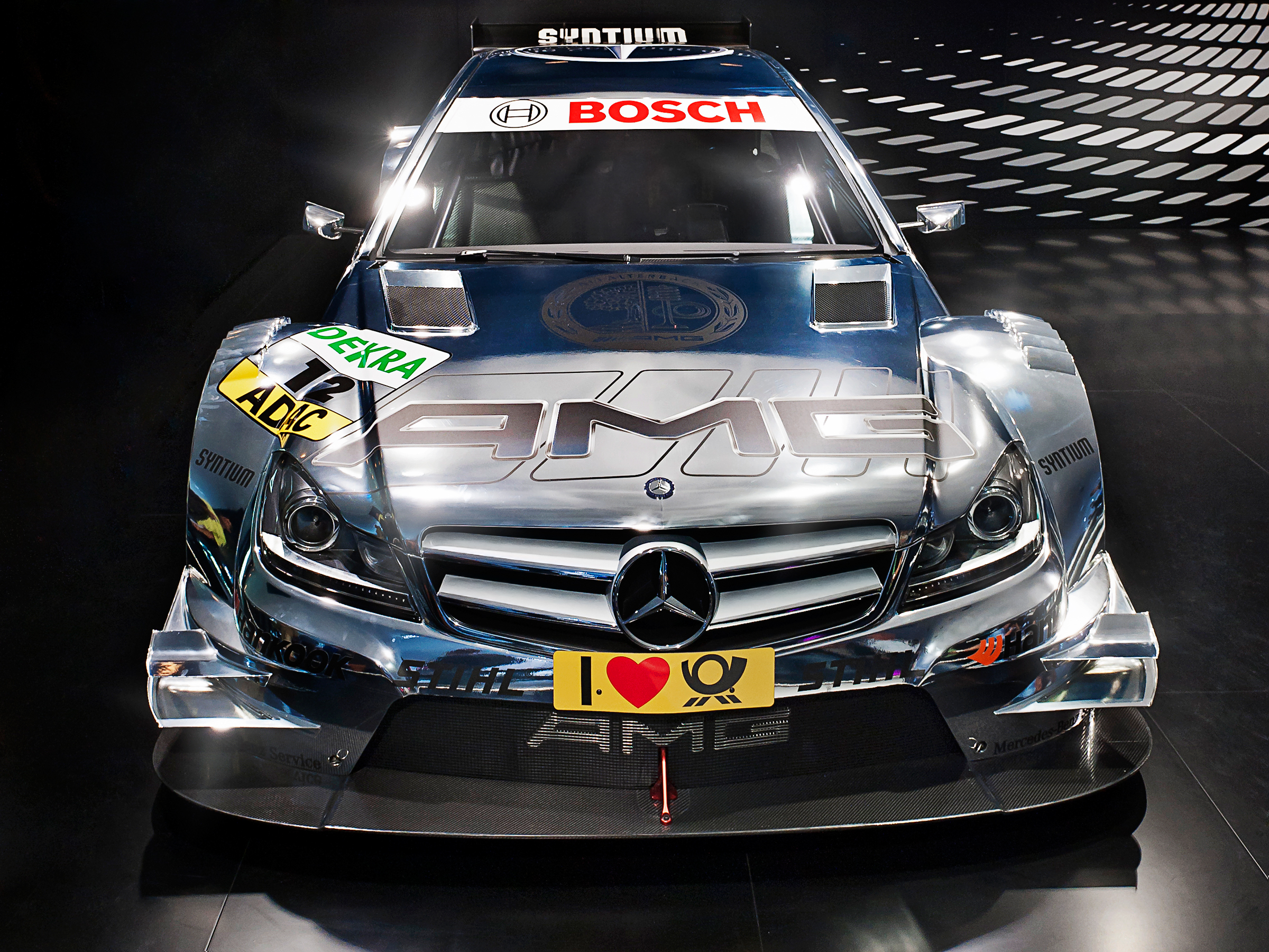 Front view of an AMG Mercedes-Benz C204, race car from the German Touring Car Championship (DTM) 2012. Photographed at the IAA 2011, Frankfurt, Germany.